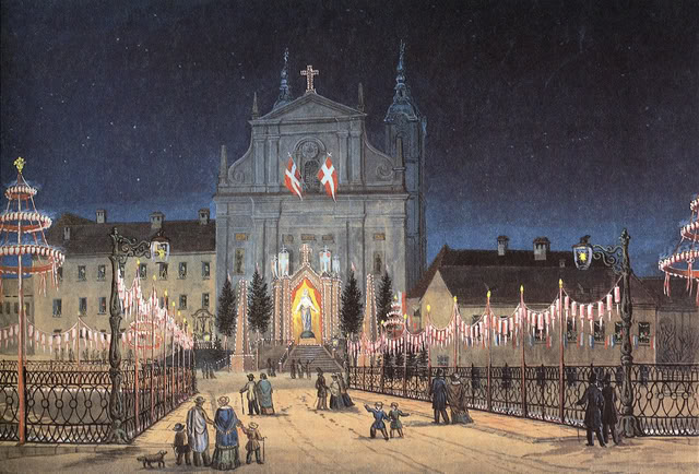 Ljubljana just before Franc Jozef's visit on a 1856 painting.